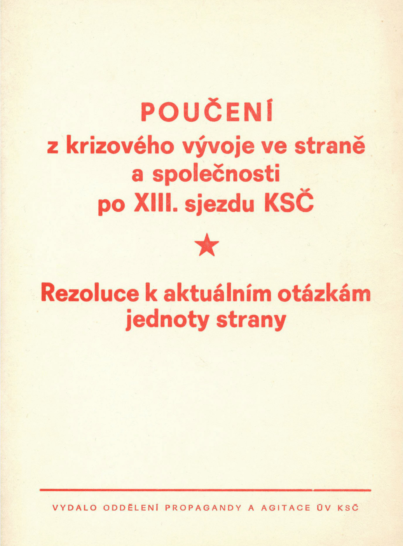 Front page of the propaganda document of the Communist Party of Czechoslovakia: "Poučení z krizového vývoje ve straně a společnosti po XIII. sjezdu KSČ".